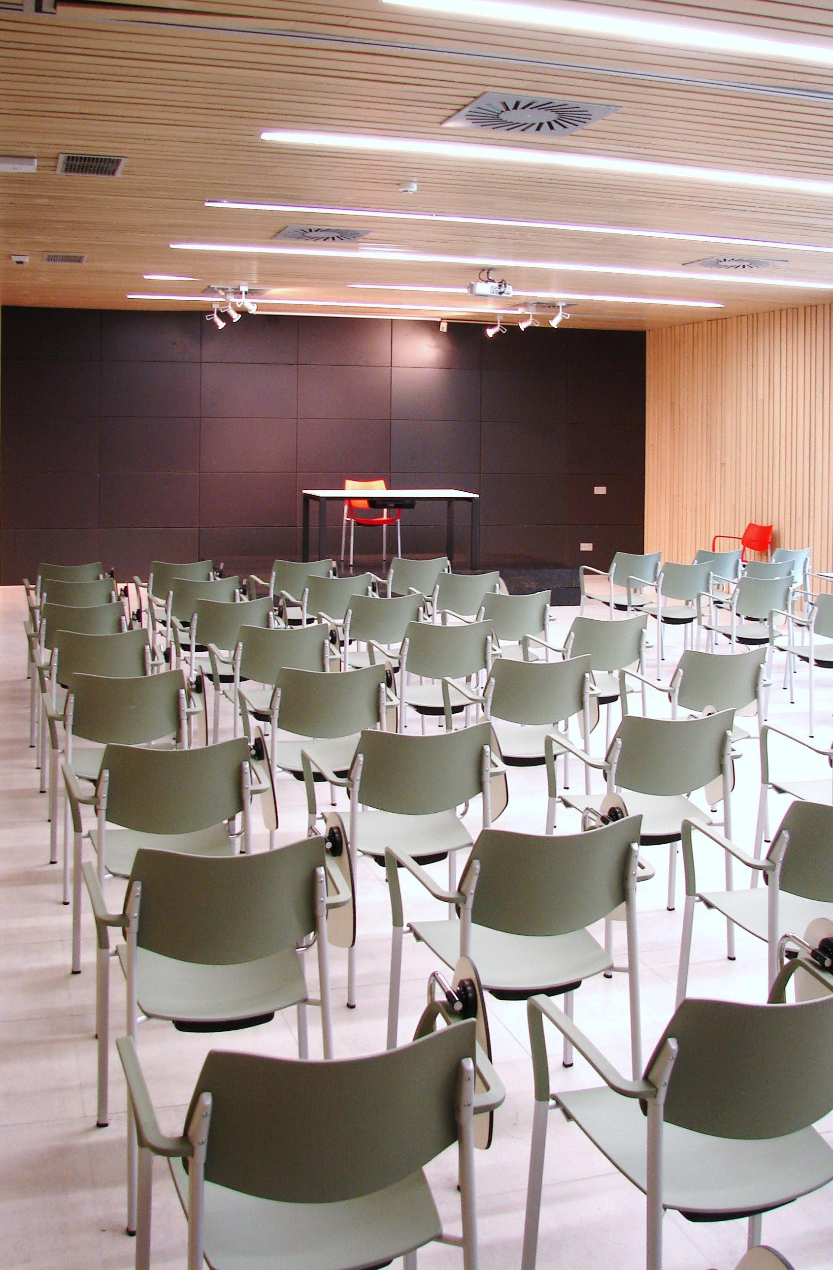 Biblioteca Municipal - Public Library - Lope de Vega (Tres Cantos) -Madrid